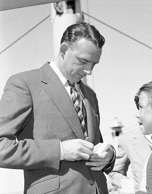 Ashes Test Series 1954-1955. The MCC Team arrives in Fremantle, Western Australia, by ship. R. Appleyard signs autographs for young fans, 15 October 1954. SMH Picture by Harry Martin